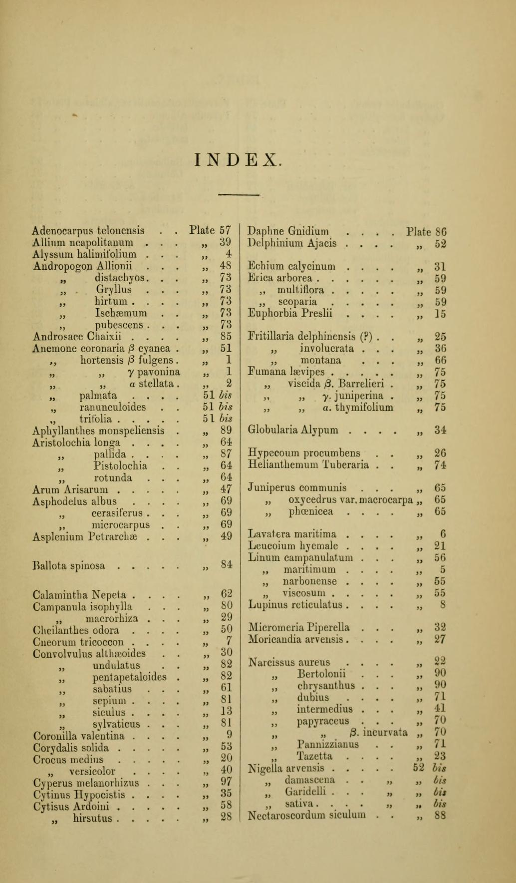 Index, first page